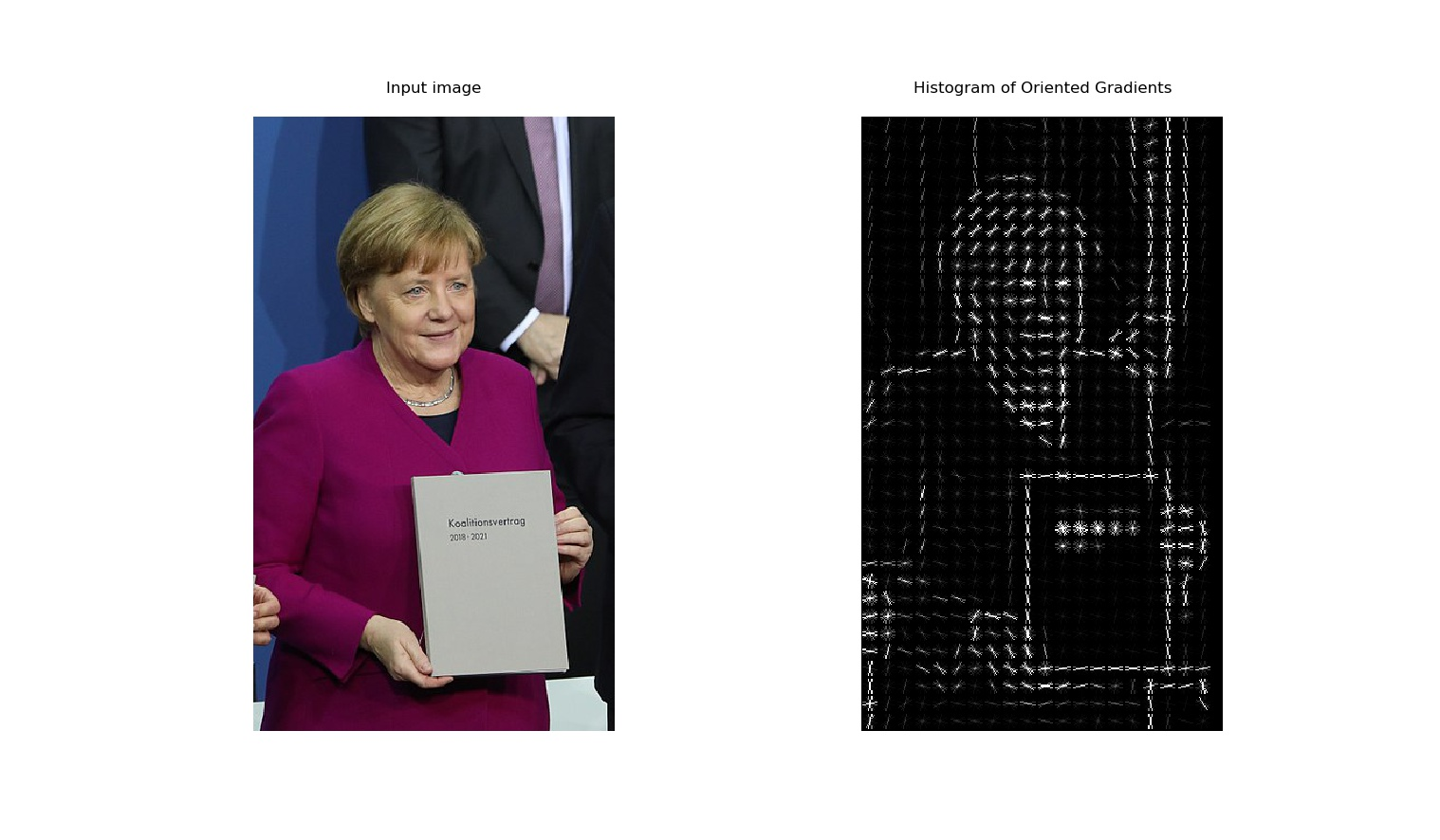 Created with scikit-image in python. compute the HOG descriptor and display a visualisation. import matplotlib.pyplot as plt from skimage.feature import hog from skimage import data, exposure, io image = io.imread("330px-2018-03-12_Unterzeichnung_des_Koalitionsvertrages_der_19._Wahlperiode_des_Bundestages_by_Sandro_Halank–027.jpg") fd, hog_image = hog(image, orientations=8, pixels_per_cell=(16, 16), cells_per_block=(1, 1), visualize=True, multichannel=True) fig, (ax1, ax2) = plt.subplots(1, 2, figsize=(8, 4), sharex=True, sharey=True) ax1.axis('off') ax1.imshow(image, cmap=plt.cm.gray) ax1.set_title('Input image') Rescale histogram for better display hog_image_rescaled = exposure.rescale_intensity(hog_image, in_range=(0, 10)) ax2.axis('off') ax2.imshow(hog_image_rescaled, cmap=plt.cm.gray) ax2.set_title('Histogram of Oriented Gradients') plt.show